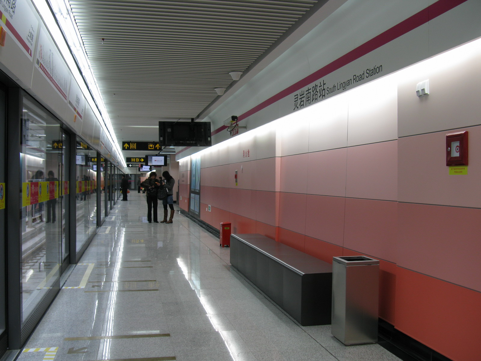 灵岩南路站 6号线月台 Line 6 Platform of Lingyan Road (S) Station